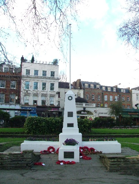 War Memorial - Islington Green. The base is in the shape of an X the construction appears to be concrete. It sits in a triangular park surrounded by traffic.